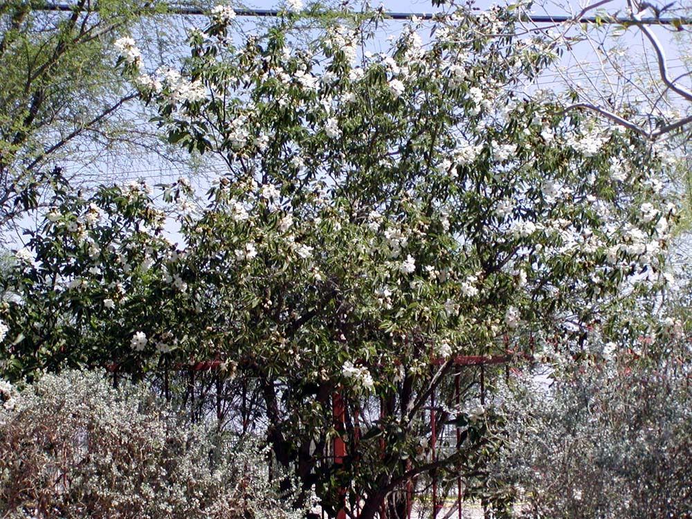 Photo of Cordia boisseri (Texas olive) at the Desert Demonstration Garden in Las Vegas